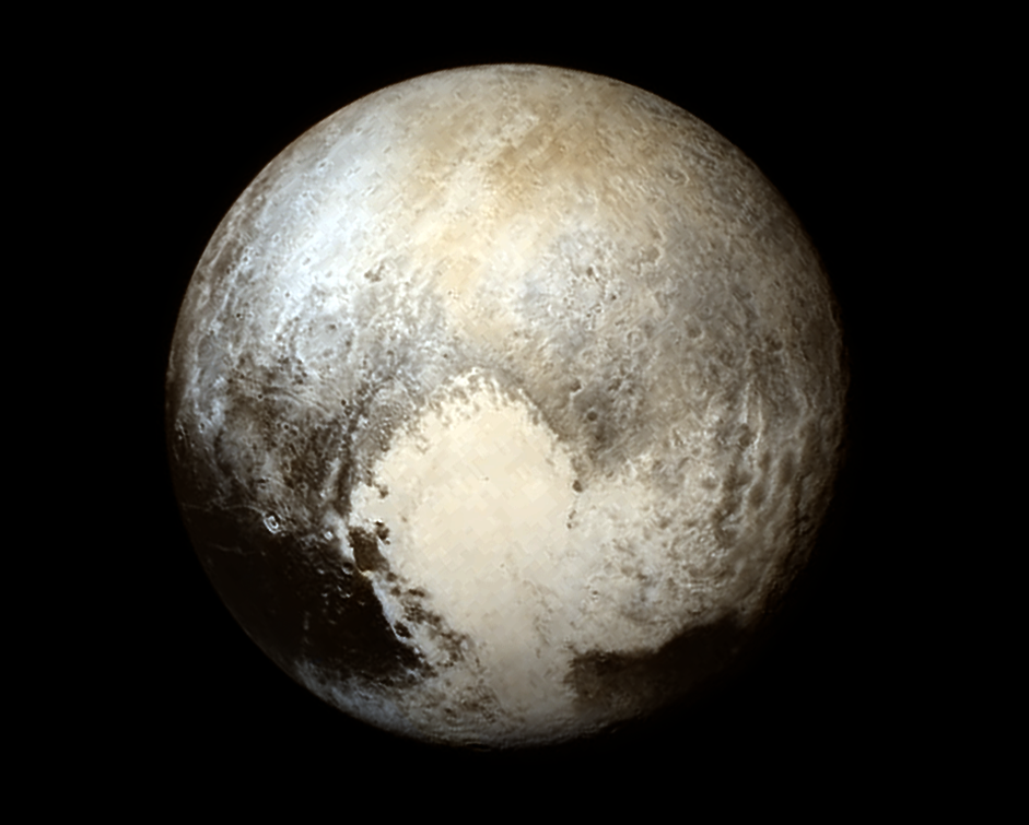 Pluto photographed by Lorri and Ralph instruments aboard the New Horizons spacecraft.